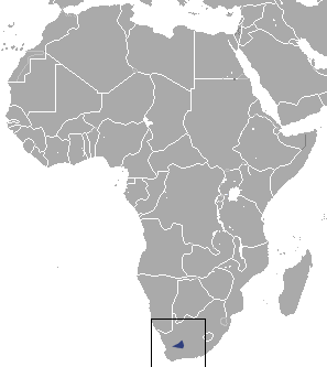 Karoo Rock Elephant Shrew (Elephantulus pilicaudus) range IUCN: Elephantulus pilicaudus Smit, 2008 (old web site) (Data Deficient)